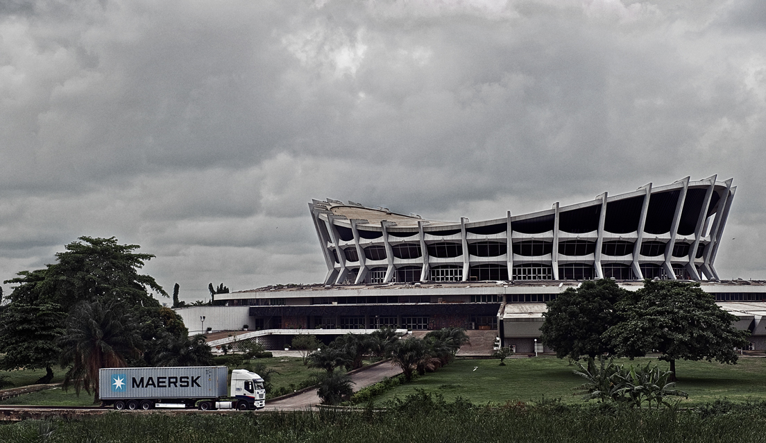 The National Arts Theatre in Lagos